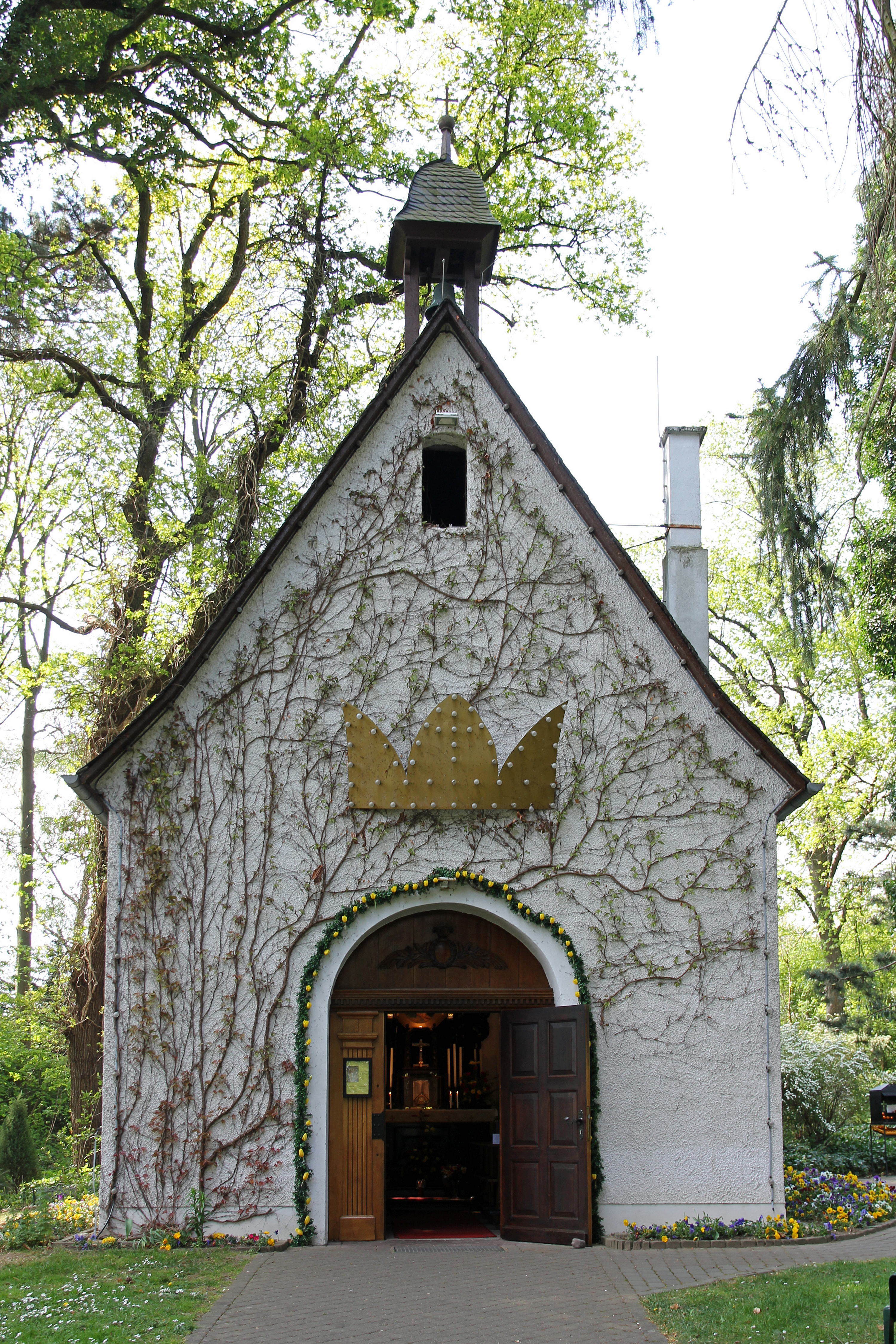 Weidtman Castle in Koblenz